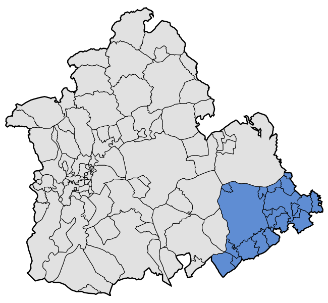 Map of Sierra Sur de Sevilla, region of province of Sevilla, Spain